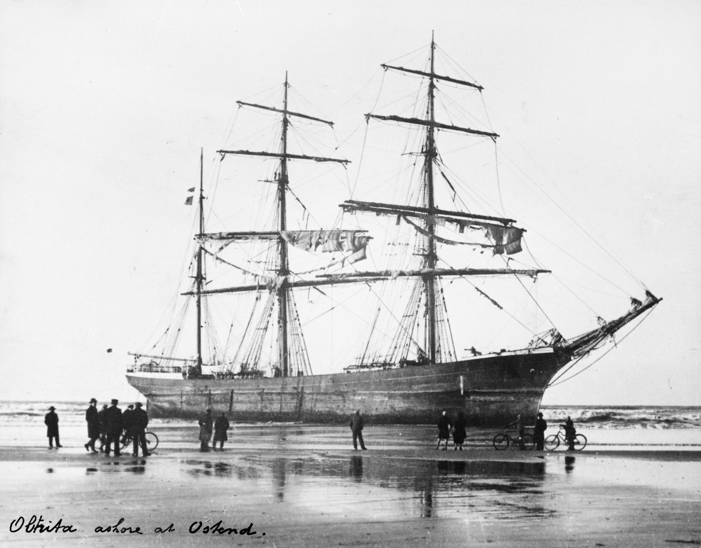 Original caption: "Obotrite ashore at Ostende. Three masted barque on the sands before breaking up; spectators on the beach."